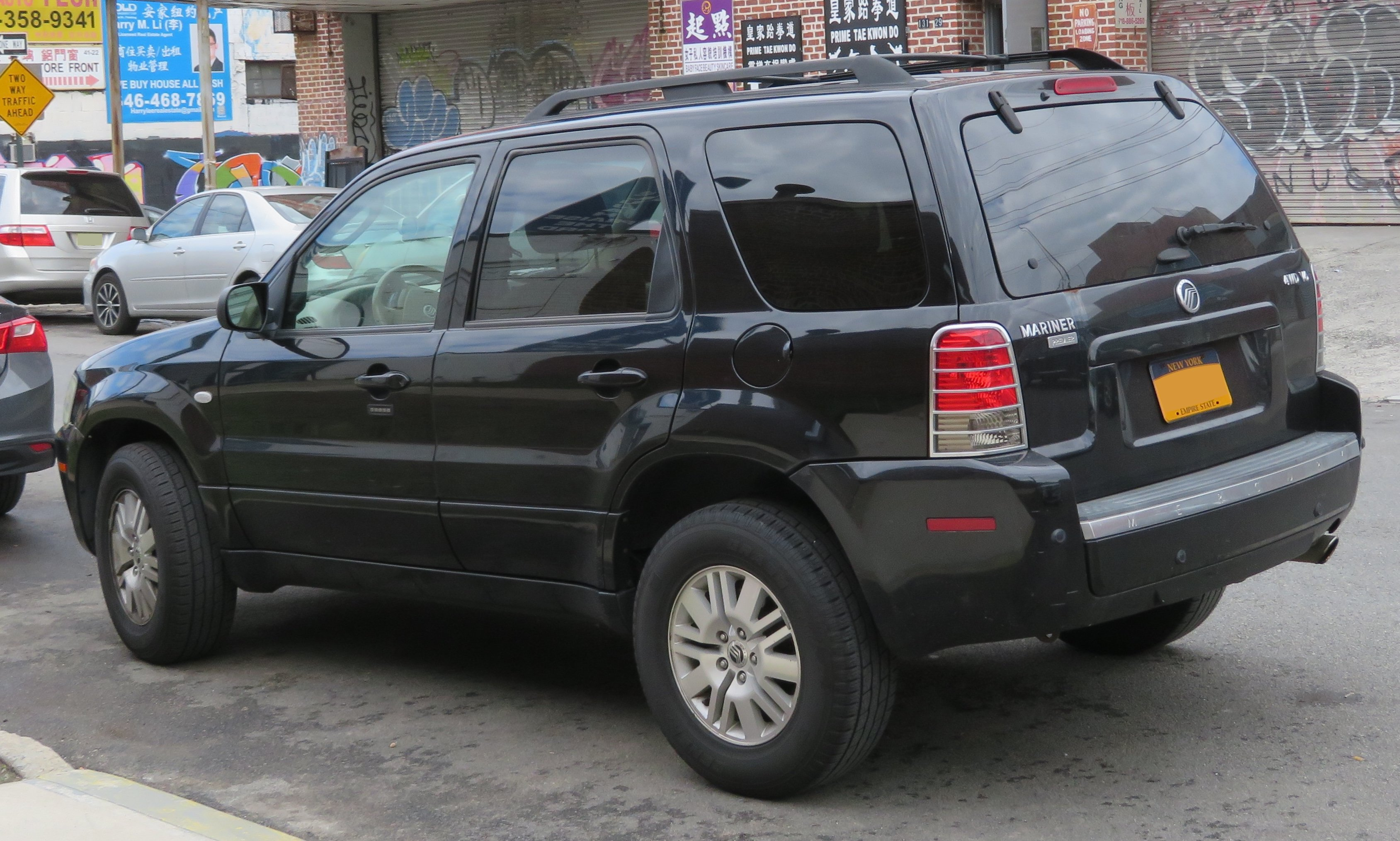 In Queens, New York